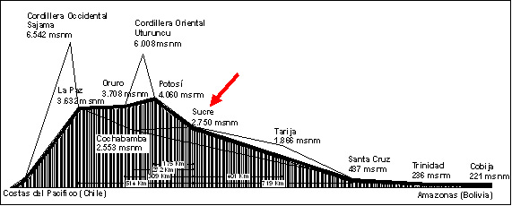 Geographie of Sucre